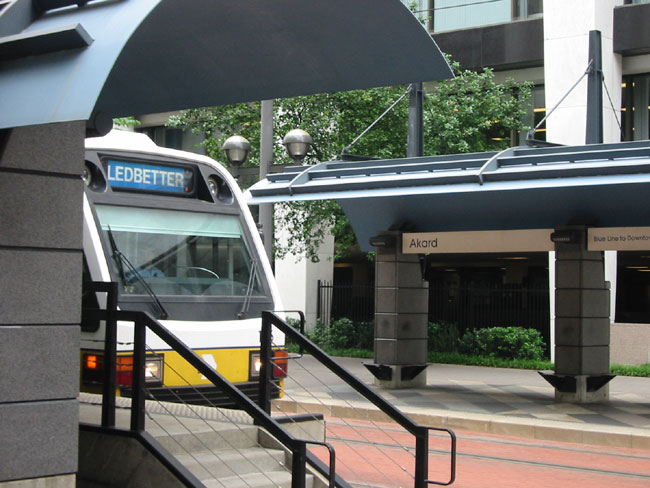 Akard Station in Dallas, Texas. Personal picture taken May 9, 2004.